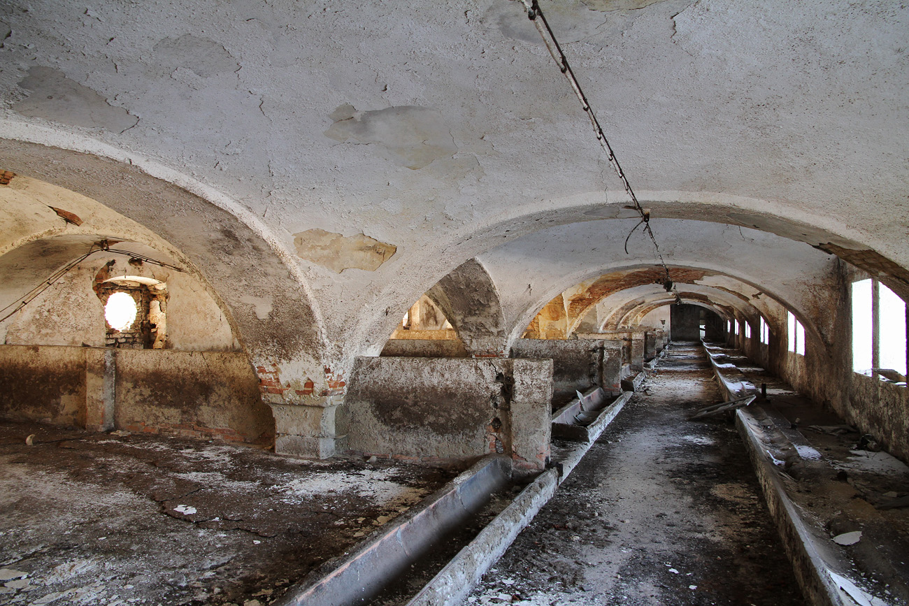 Křivoklátsko - vnitřek chlévu u dvora Karlov